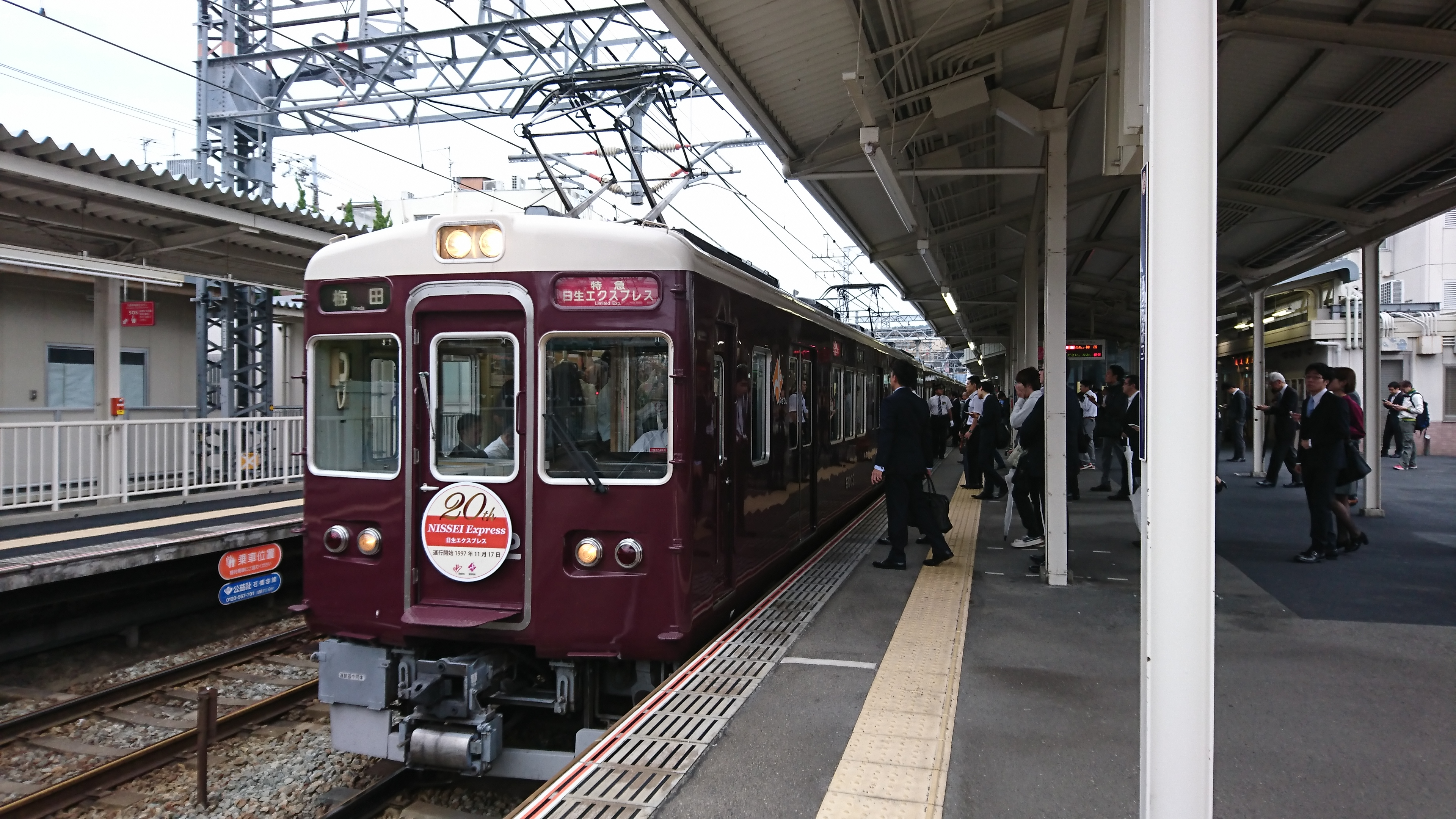 Ishibashi Station in Osaka